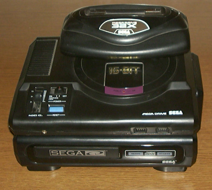 An Asian Mega Drive combined with a U.S. Sega CD and a PAL 32X to a Mega-CD 32X / Sega CD 32X system.